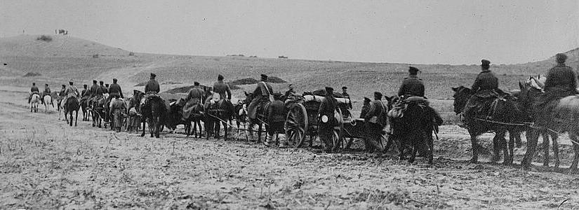 Library of Congress TITLE: Siege artillery arriving before Adrianople, Nov. 3, 1912 CALL NUMBER: LC-B2- 2483-14[P&P] REPRODUCTION NUMBER: LC-DIG-ggbain-11202 (digital file from original negative) RIGHTS INFORMATION: No known restrictions on publication. MEDIUM: 1 negative : glass ; 5 x 7 in. or smaller. CREATED/PUBLISHED: Nov. 3, 1912. CREATOR: Bain News Service, publisher.